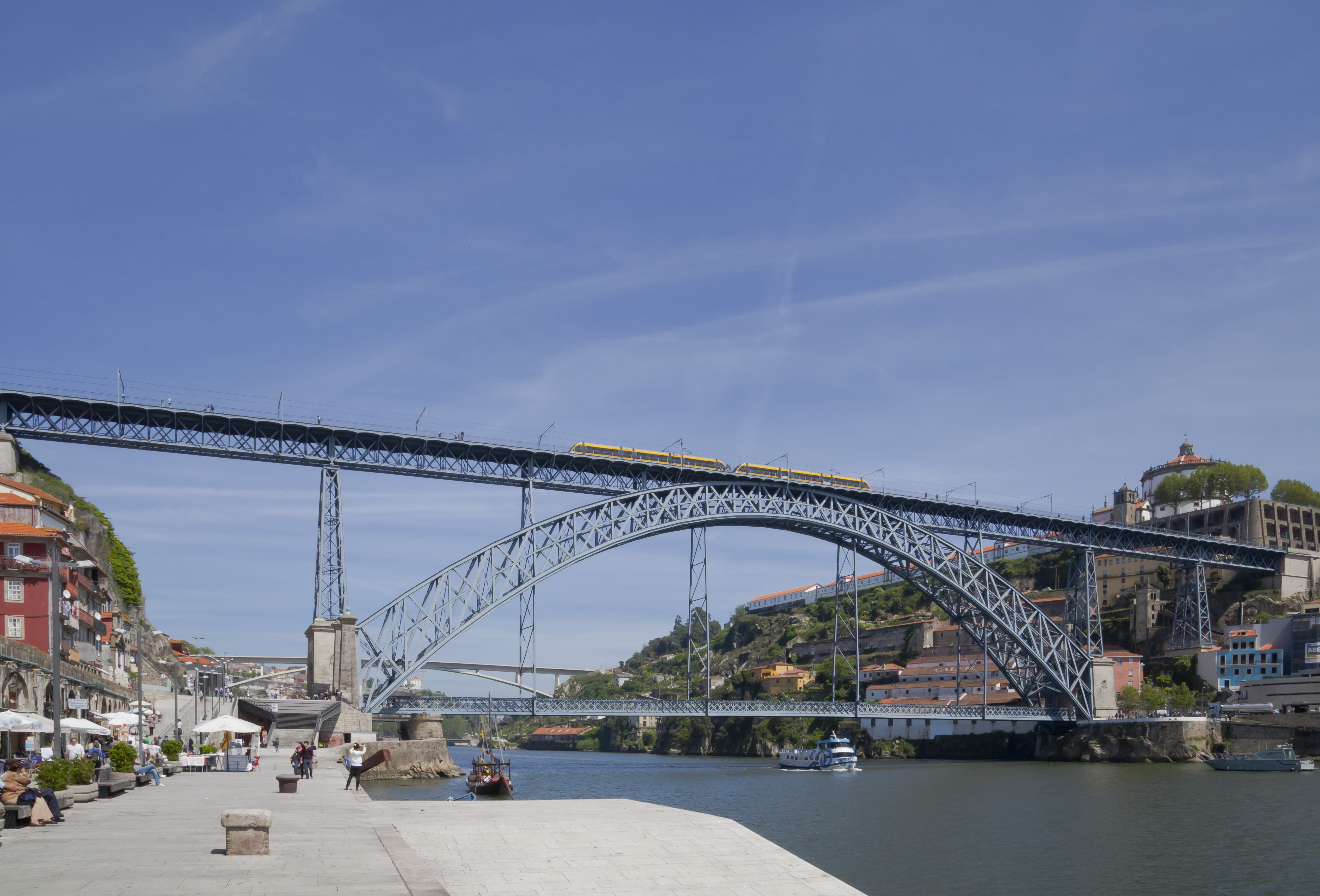 Cais da Ribeira, Porto, Portugal